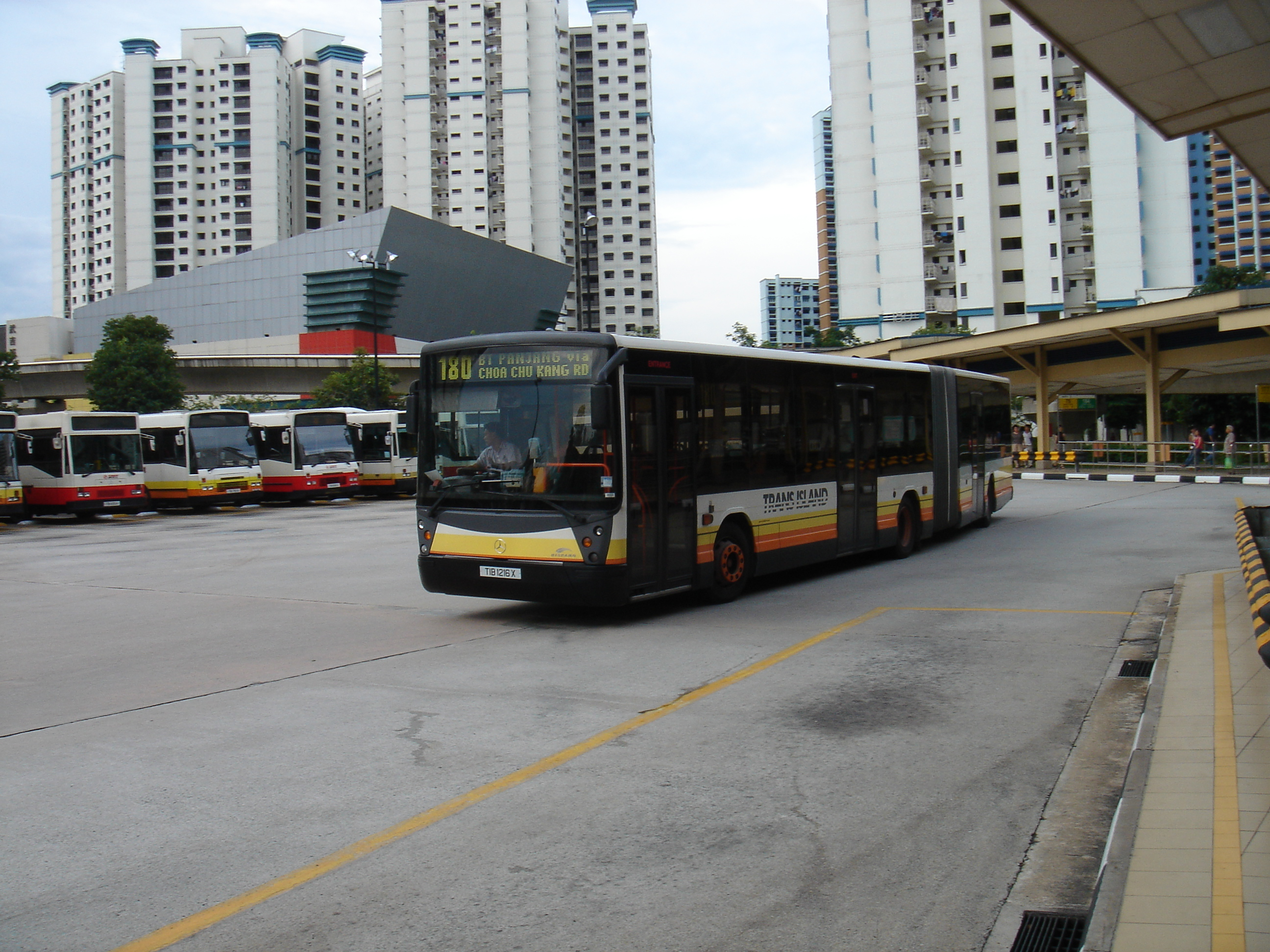 Mercedes Benz O405G Habit (Hispano bodied) bendy bus (TIB1216X, built 2004) at Bukit Pajang Interchange, SMRT Buses.